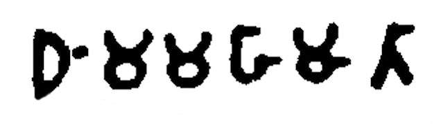 Dhamma Mahaamaataa inscription Girnar Major Rock Edict No5